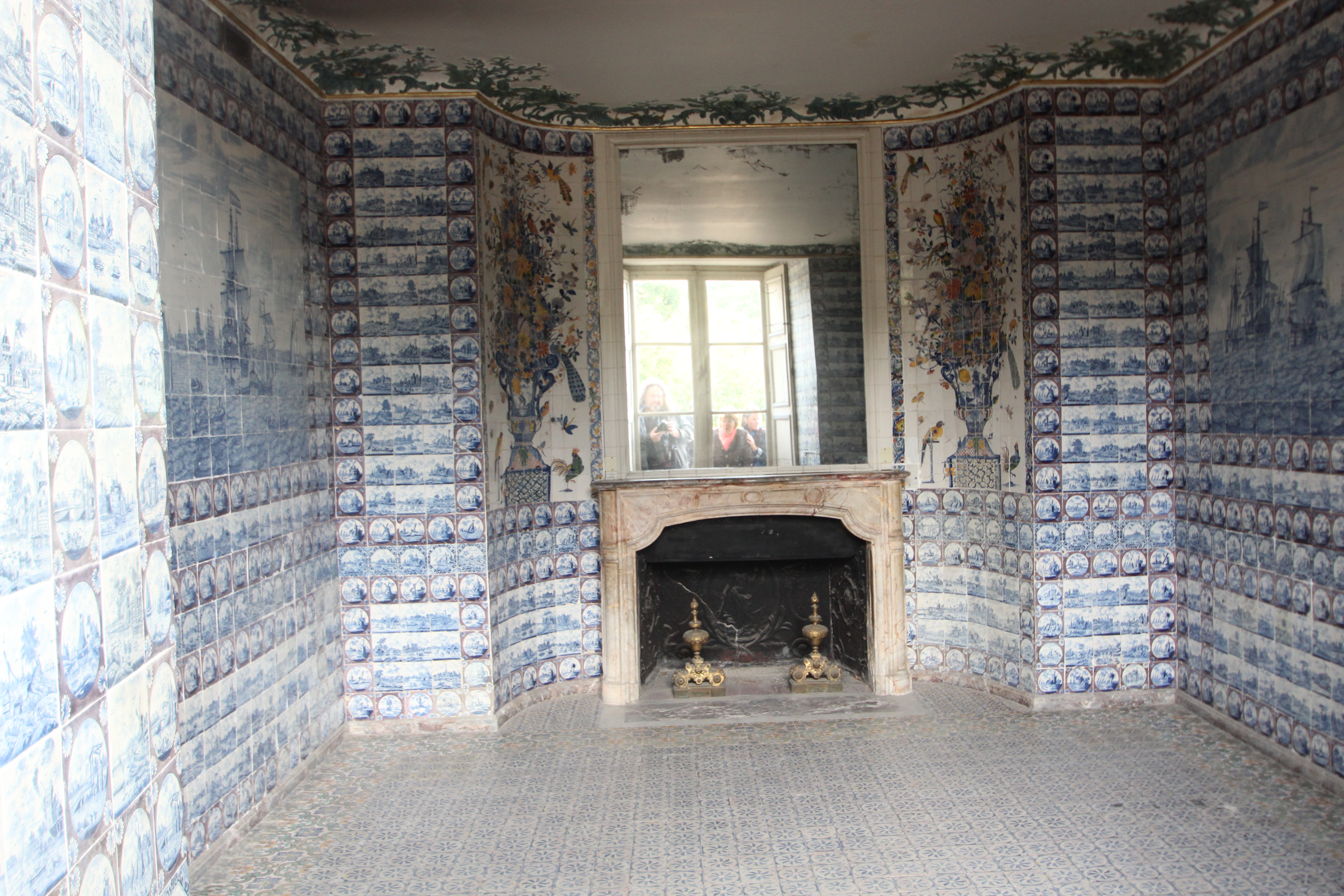 Castle of Rambouillet, France